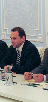 Armenian Defense Minister David Tonoyan